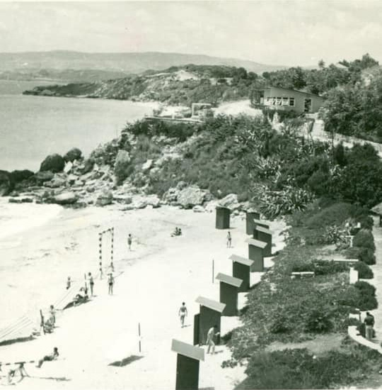 Platis Gialos beach in 1930